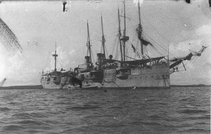 USS Newark (C-1) coaling from a schooner, 1898. Though deteriorated, this photo shows an activity that was a frequent, and very dirty, reality of Spanish-American War naval operations. Original caption: “Photo # NH 80841 USS Newark coaling, 1898” — removed caption